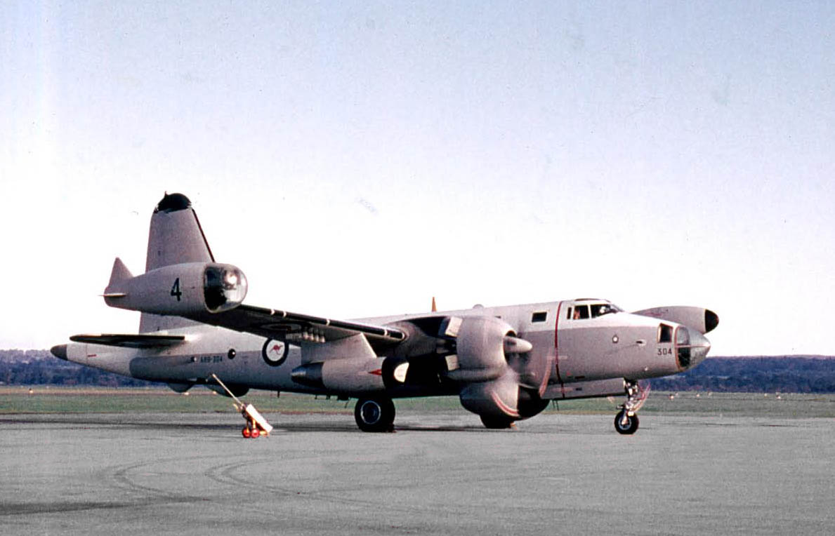 11 Sqdn RAAF Base Pearce mid 1960